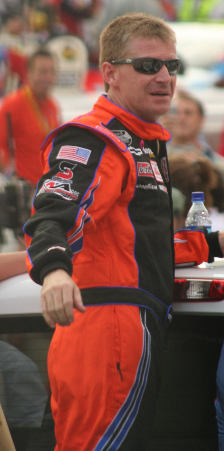 NASCAR driver Jeff Burton in August 2007 at Bristol Motor Speedway